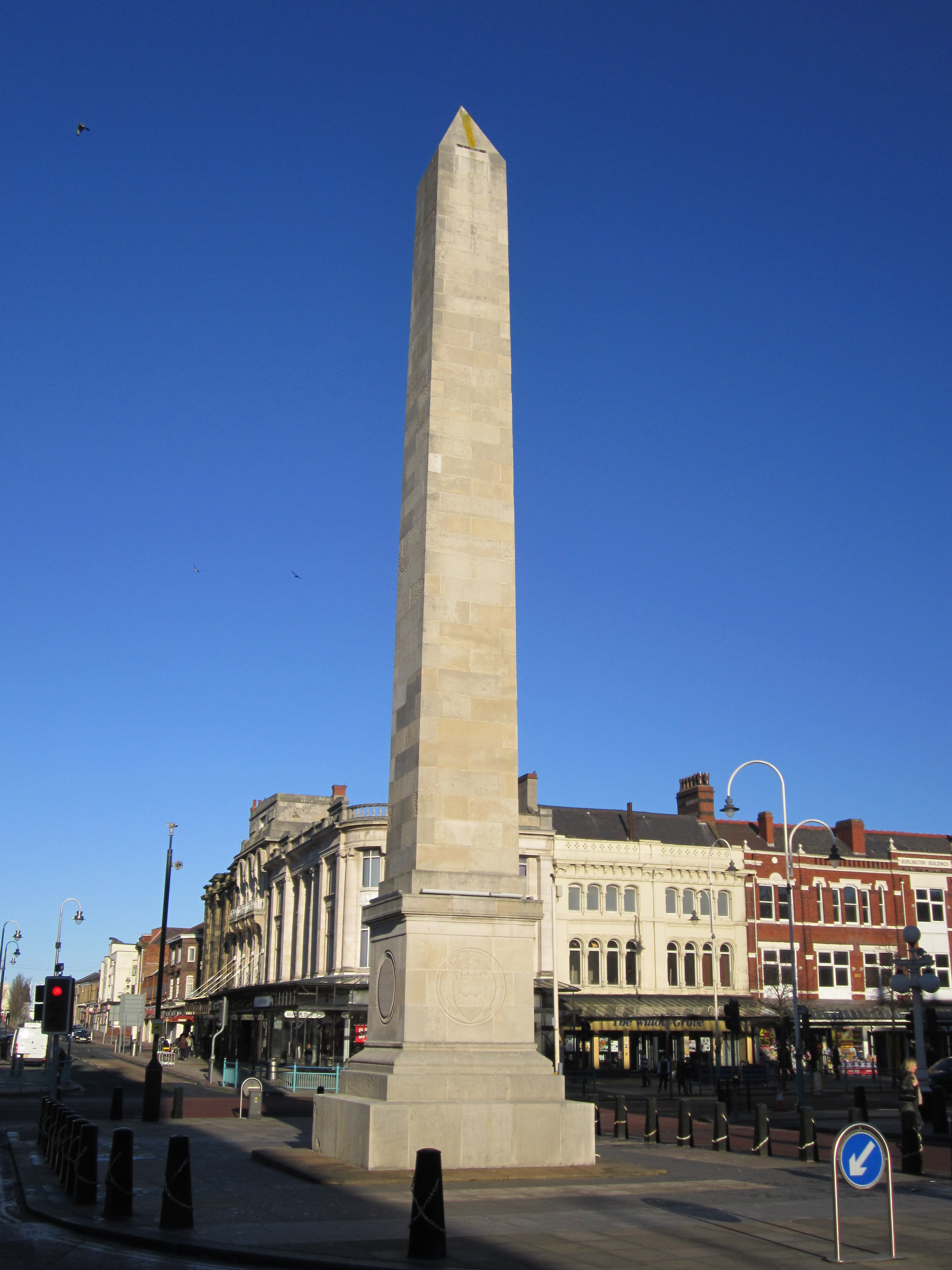 Obelisk, Lord Street, Southport, Merseyside, England. The centrepiece of the Southport War Memorial.